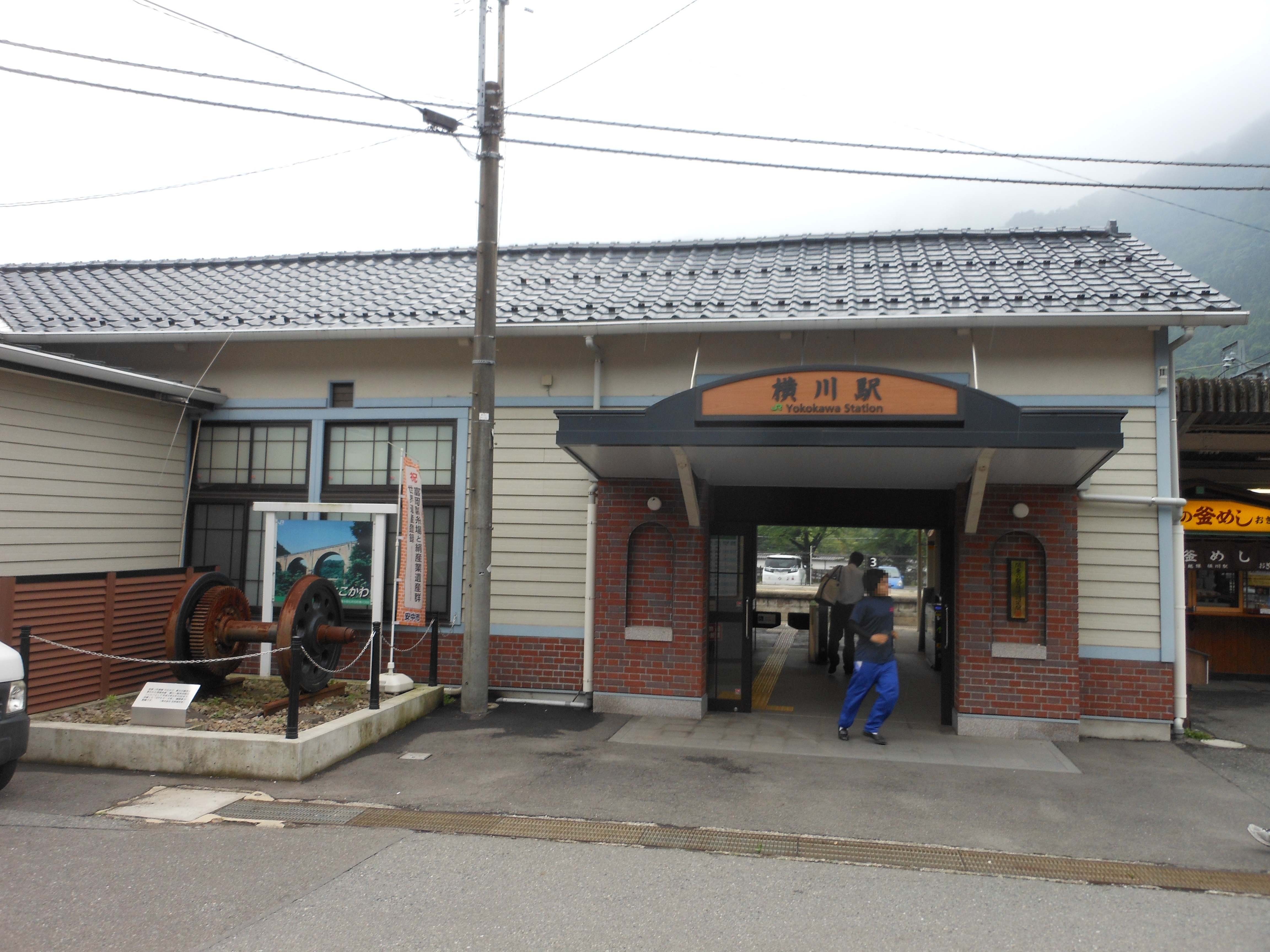 This is the entrance of JR Shin'etsu Main Line Yokokawa Station in Annaka, Gunma, Japan.